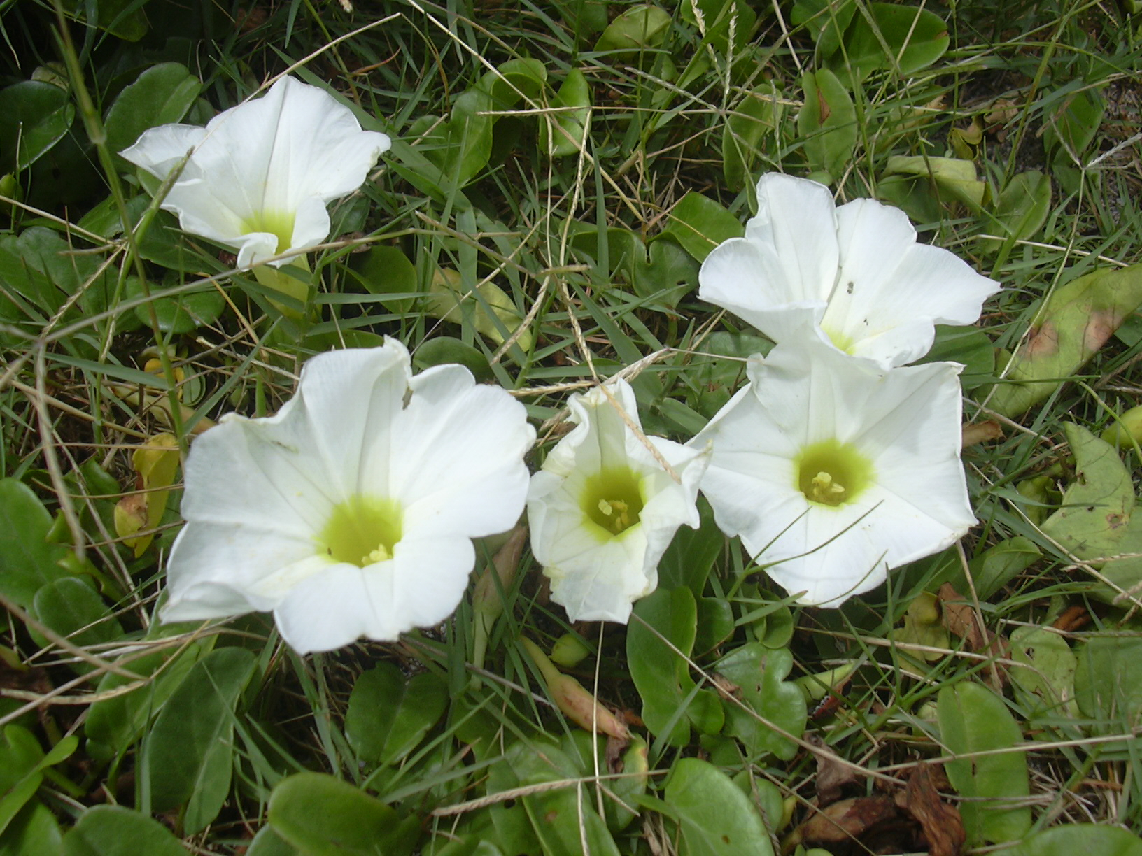 Ipomoea imperati (flowers). Location: Oahu, Mokuleia